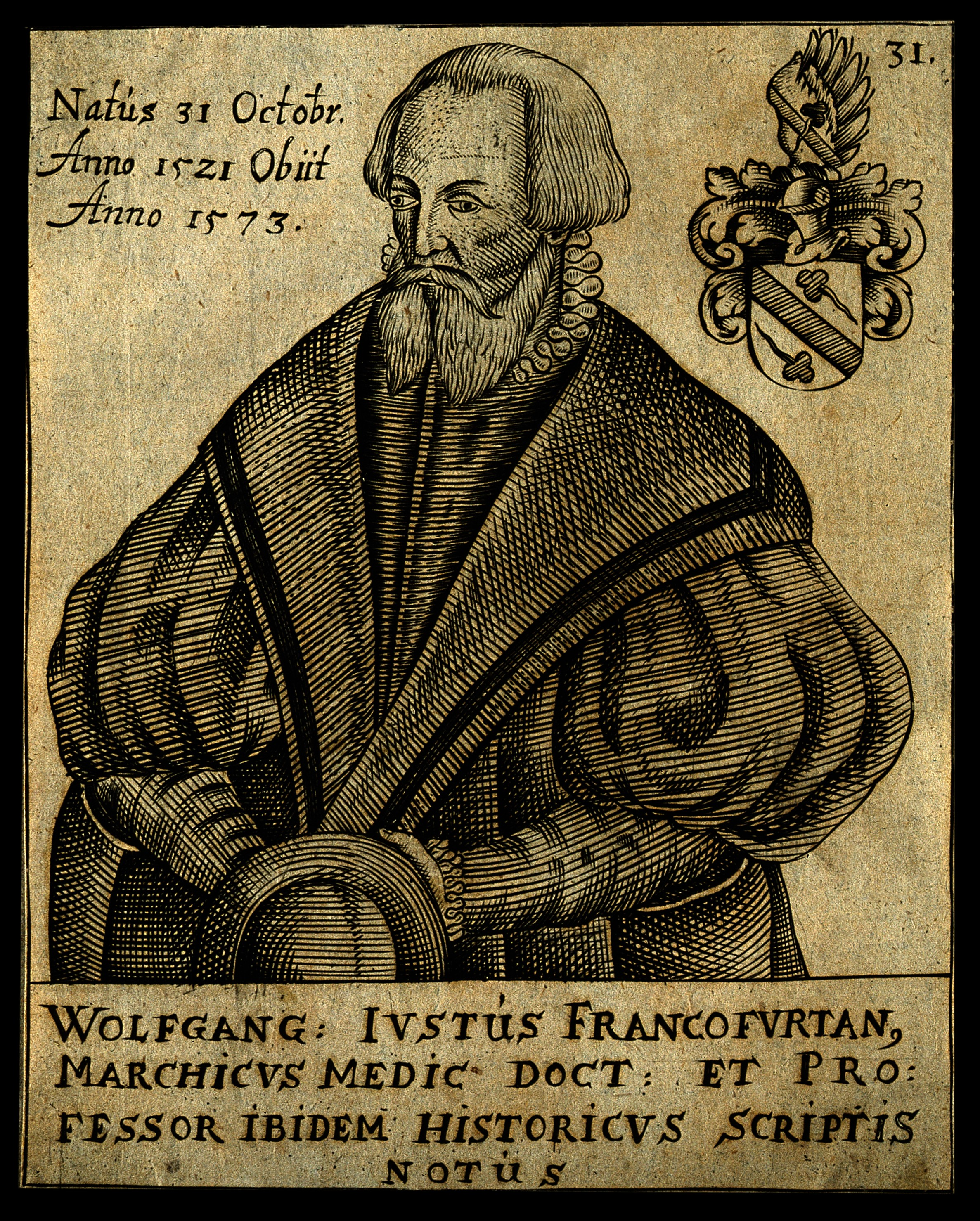 Wolfgang Jobst [Justus]. Line engraving. Iconographic Collections Keywords: portrait prints; engravings; Wolfgang Jobst